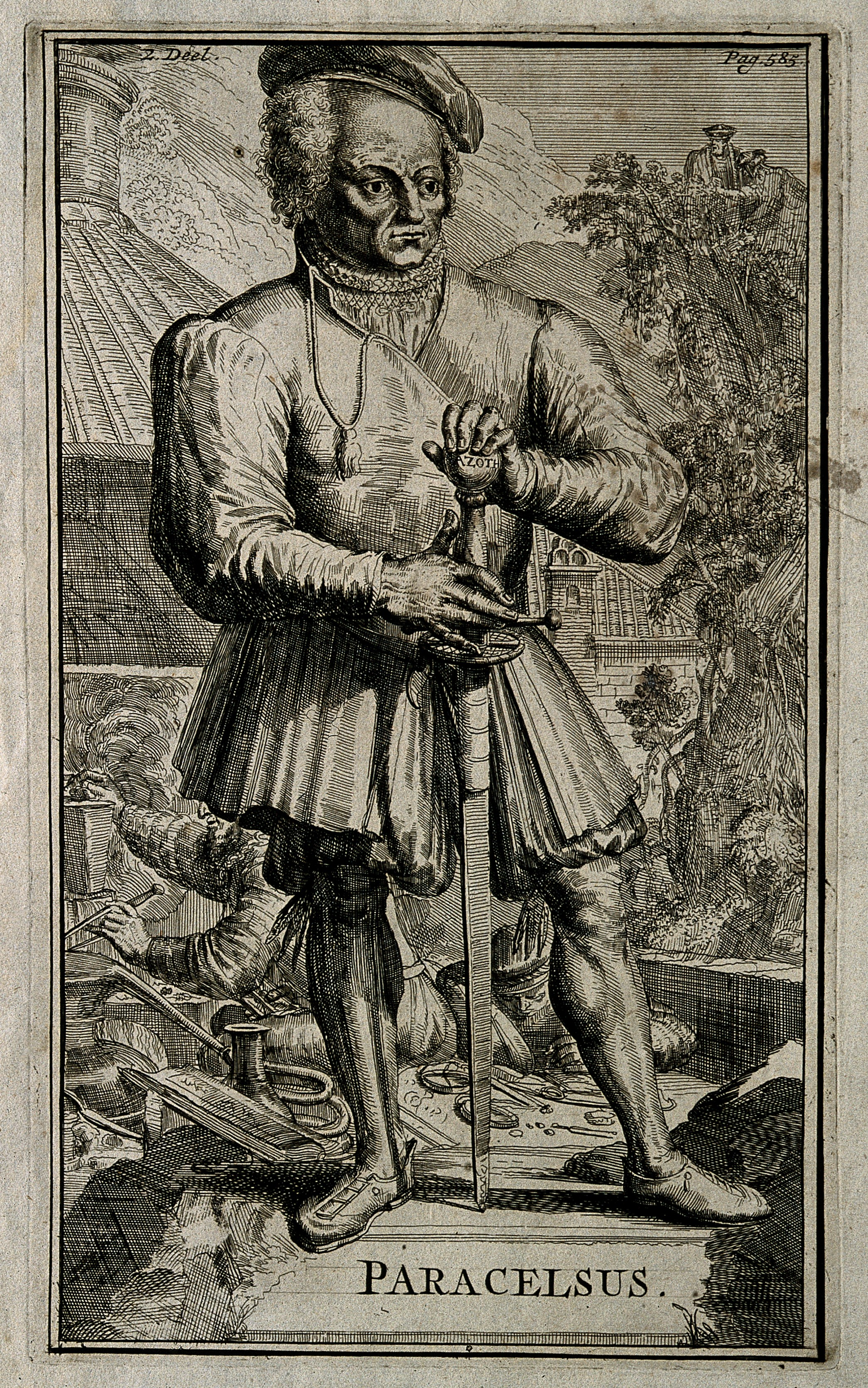 Aureolus Theophrastus Bombastus von Hohenheim [Paracelsus]. Line engraving by R. de Hooghe. Iconographic Collections Keywords: Portraits; paracelsus, aureolus theophras; Paracelsus